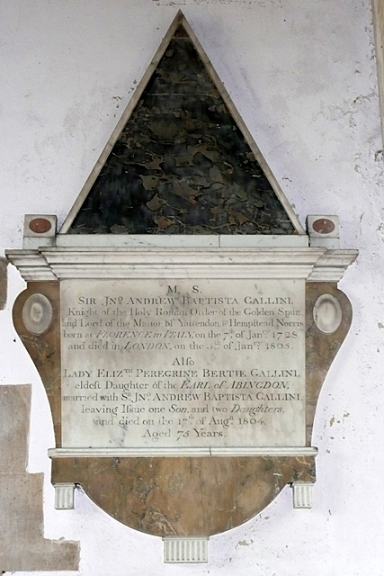 Church of England parish church of Saints Peter and Paul, Yattendon, Berkshire. This monument is dedicated to "Sir John Andrew Baptista Gallini, Knight of the Holy Roman Order of the Golden Spur, and Lord of the Manor of Yattendon and Hempstead Norris (sic), born at Florence in Italy on the 7th January 1728 and died in London on the 5th January 1805. Also Lady Elizabeth Peregrine Bertie Gallini, Eldest Daughter of the Earl of Abingdon, married with Sir John Andrew Baptista Gallini, leaving issue one son and two daughters, and died on the 17th August 1804, aged 75 years." Gallini bought the manor in 1785 and upon his death in 1805 it passed to his son.